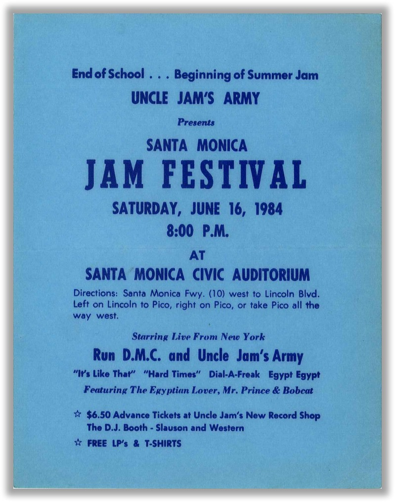 A poster for the Run-D.M.C. and Uncle Jam's Army "Jam Festival", promoted by Uncle Jamm's Army, at the Santa Monica Civic Auditorium, Santa Monica, California on June 16, 1984.